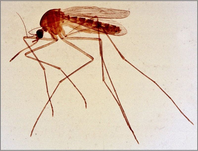 Photograph of a parasitic insect of domestic animals